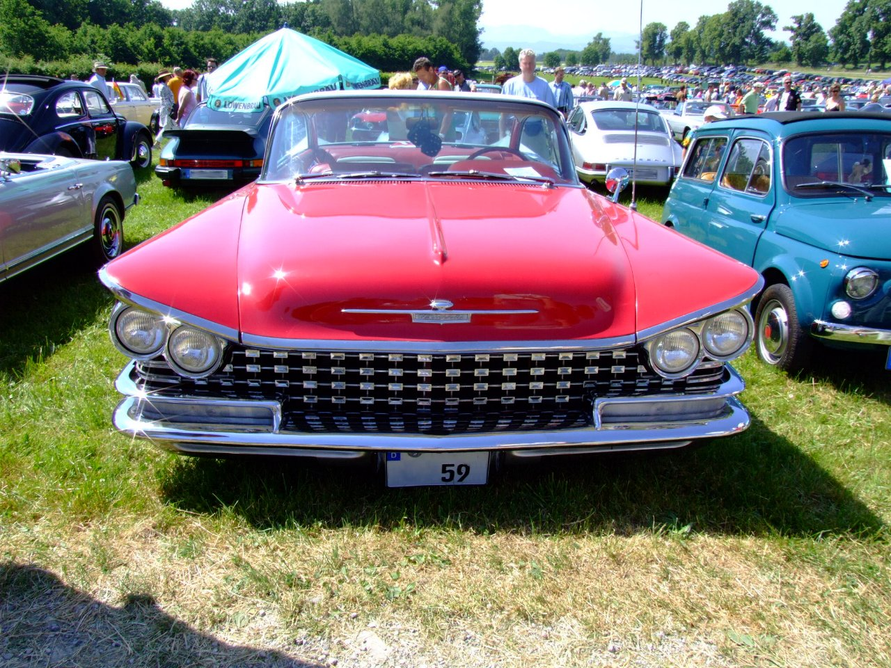 1959 Buick LeSabre with a 250 PS V8